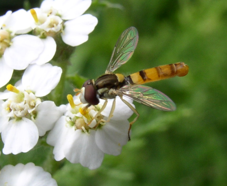 Male syrphid fly, Sphaerophoria contigua. Churchville Nature Center, Bucks County, Pennsylvania, USA.